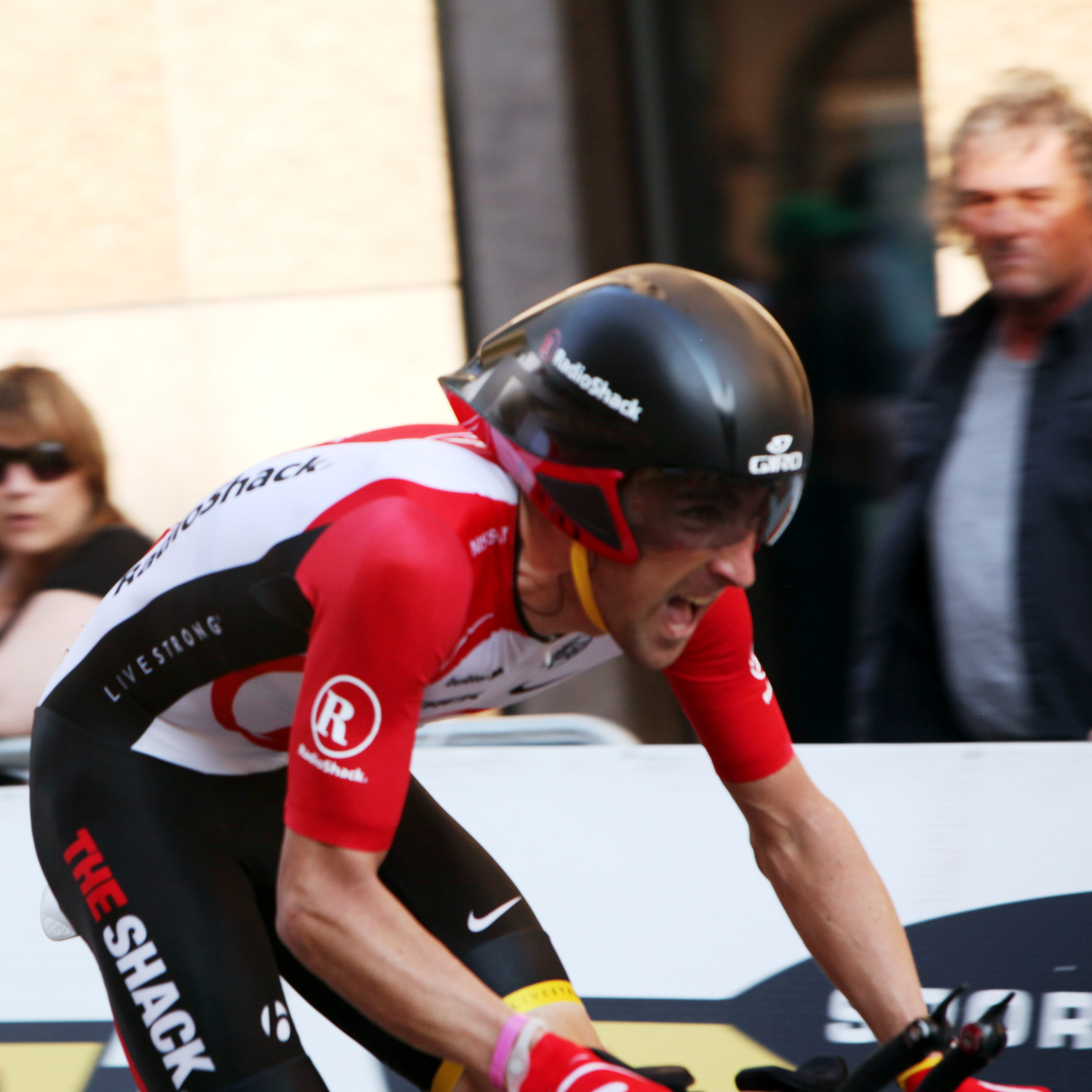 Haimar Zubeldia at the prologue of the Tour de Romandie 2011